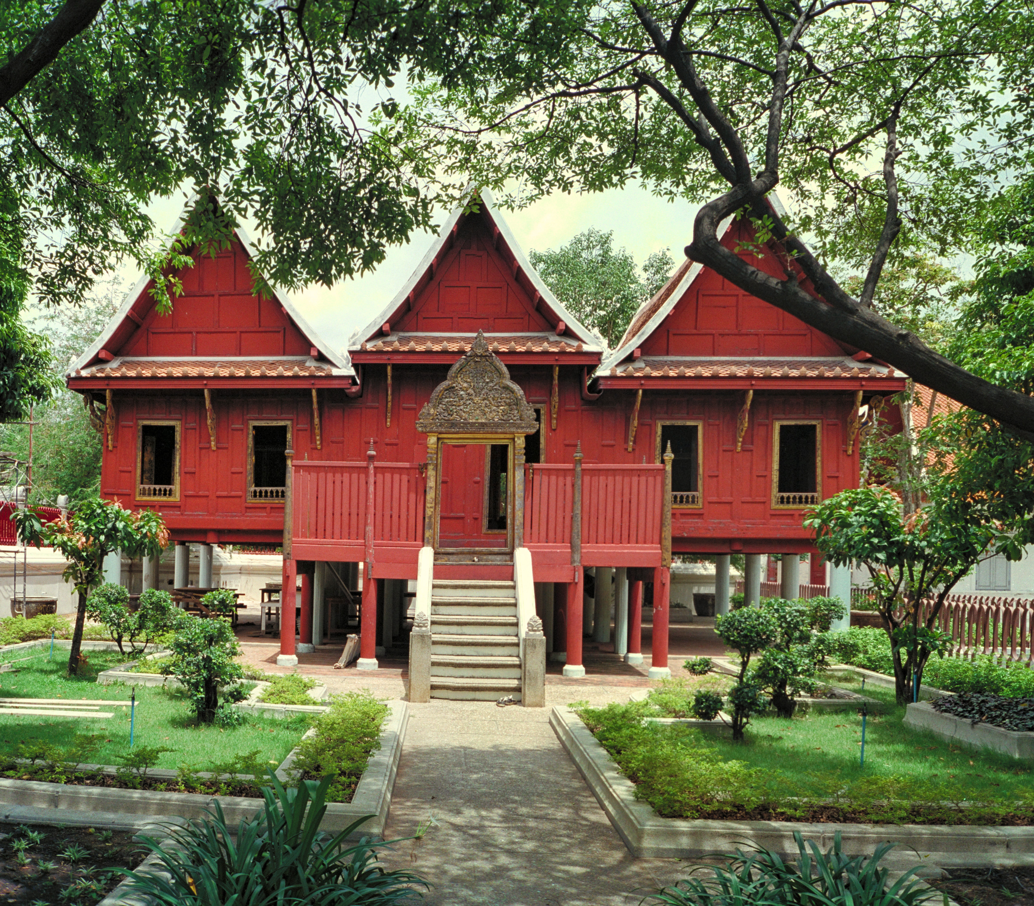 Library of Wat Rakhang, Bangkok